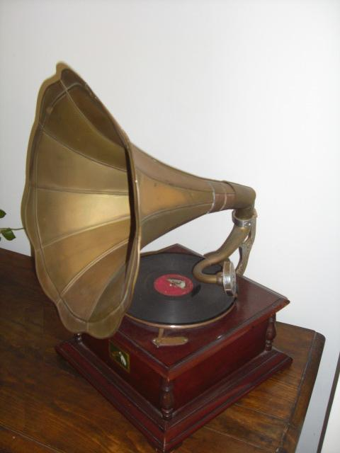 Gramophone